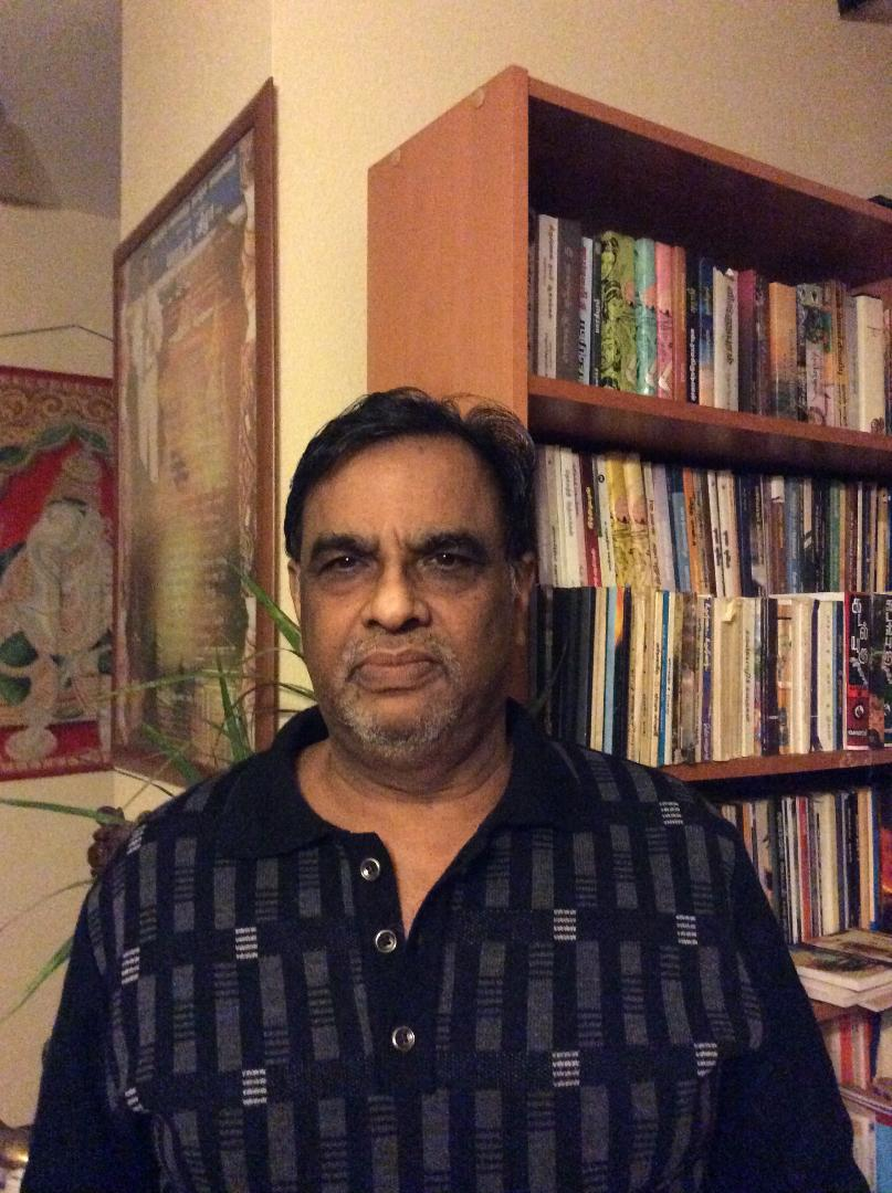 Author and Translator Krishna Nagarathinam